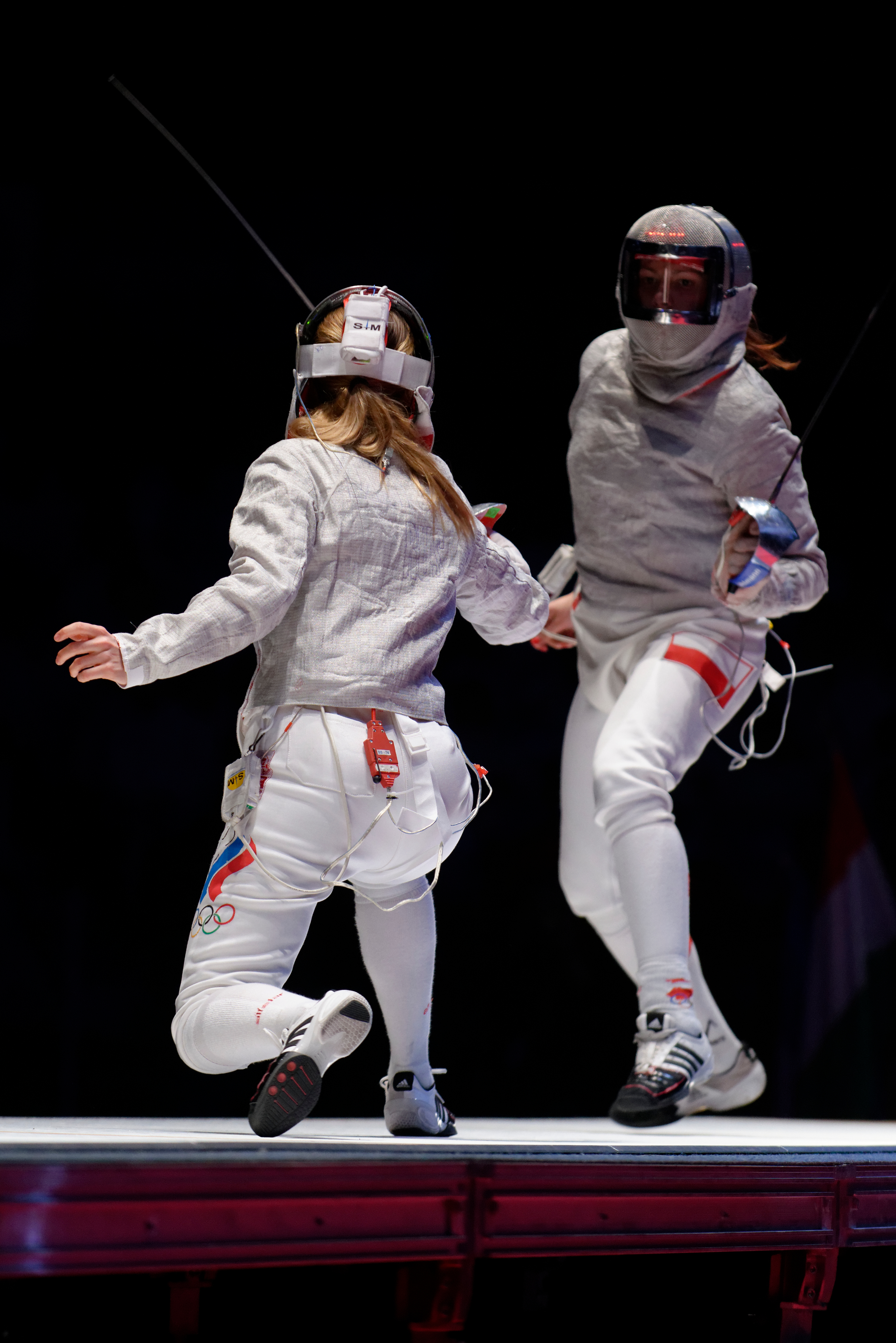 Russia's Yekaterina Dyachenko (left) fences against Małgorzata Kozaczuk of Poland (right) in the quarter-finals at the Trophée BNP Paribas-Grand Prix FIE, first stage of the women's sabre World Cup, in Orléans.